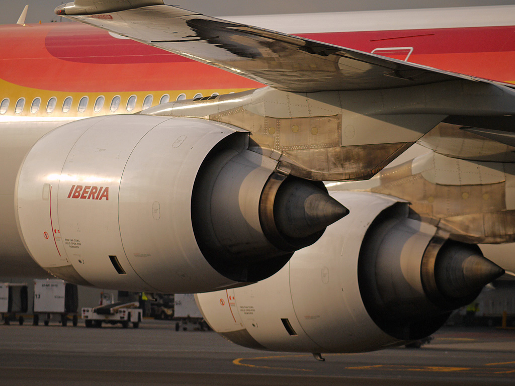 Two Rolls-Royce Trent 500 high-bypass turbofan jet engines below the left wing of a Airbus A340-600 of the Spanish airline Iberia